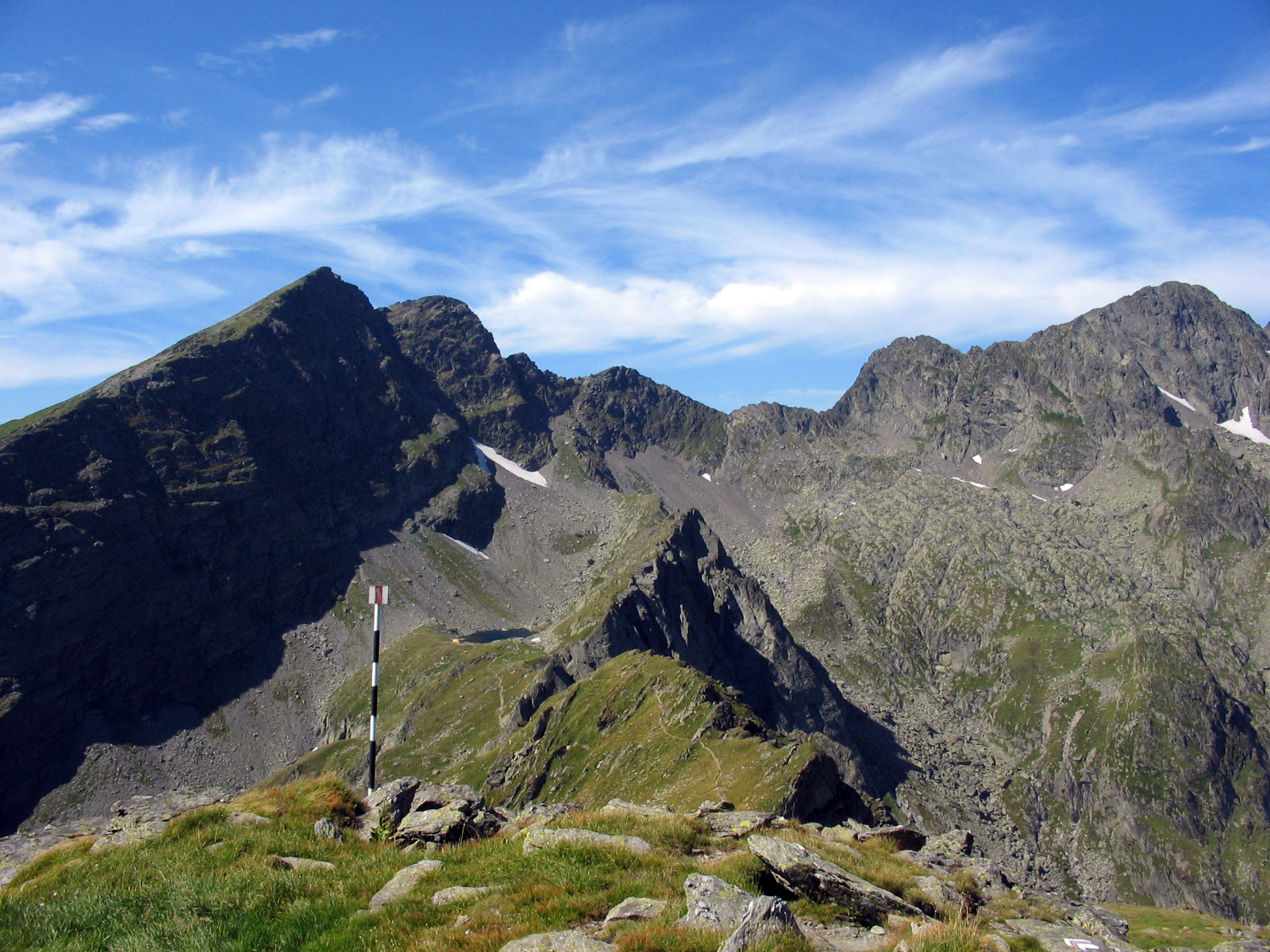 This is the Negoiu Peak from the Fagarasului Mountains.